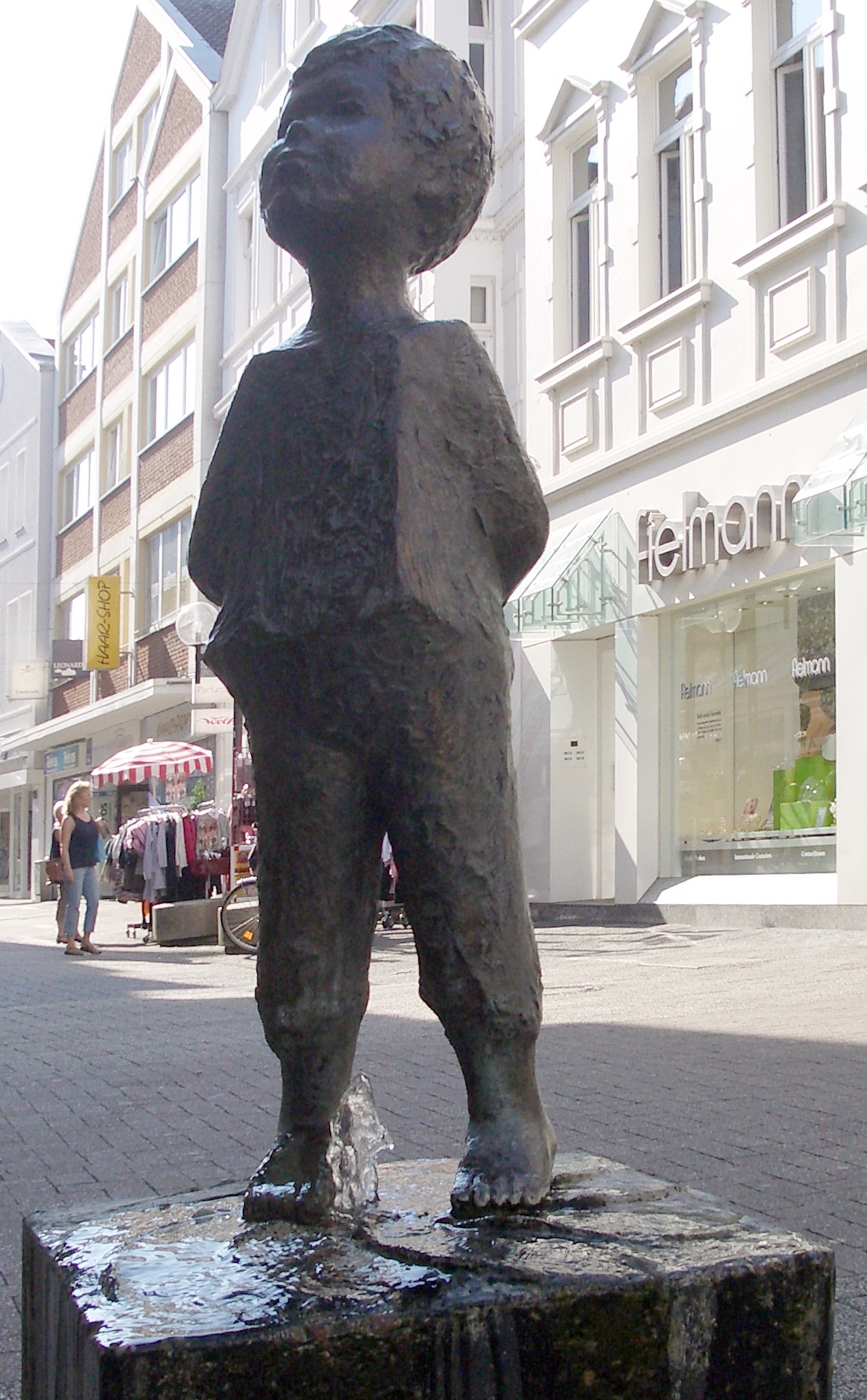 Statue in town of Herford, District of Herford, North Rhine-Westphalia, Germany.